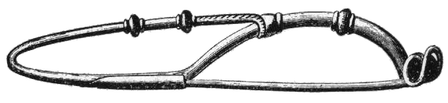 Fibula of Iron from Swedish Iron age, found in Bohuslän, Sweden